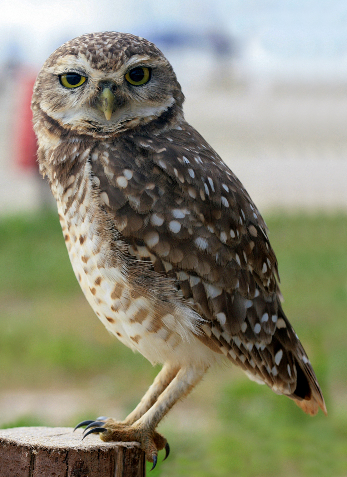 Athene cunicularia on a brazilian beach.